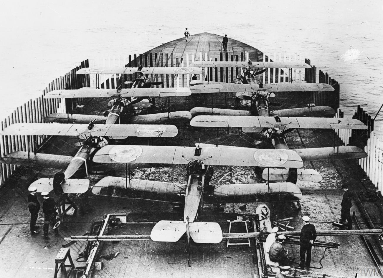 IWM caption : Sopwith Camels arrayed on the flight deck of HMS FURIOUS, en route for the attack on the German Zeppelin sheds at Tondern, July 1918.